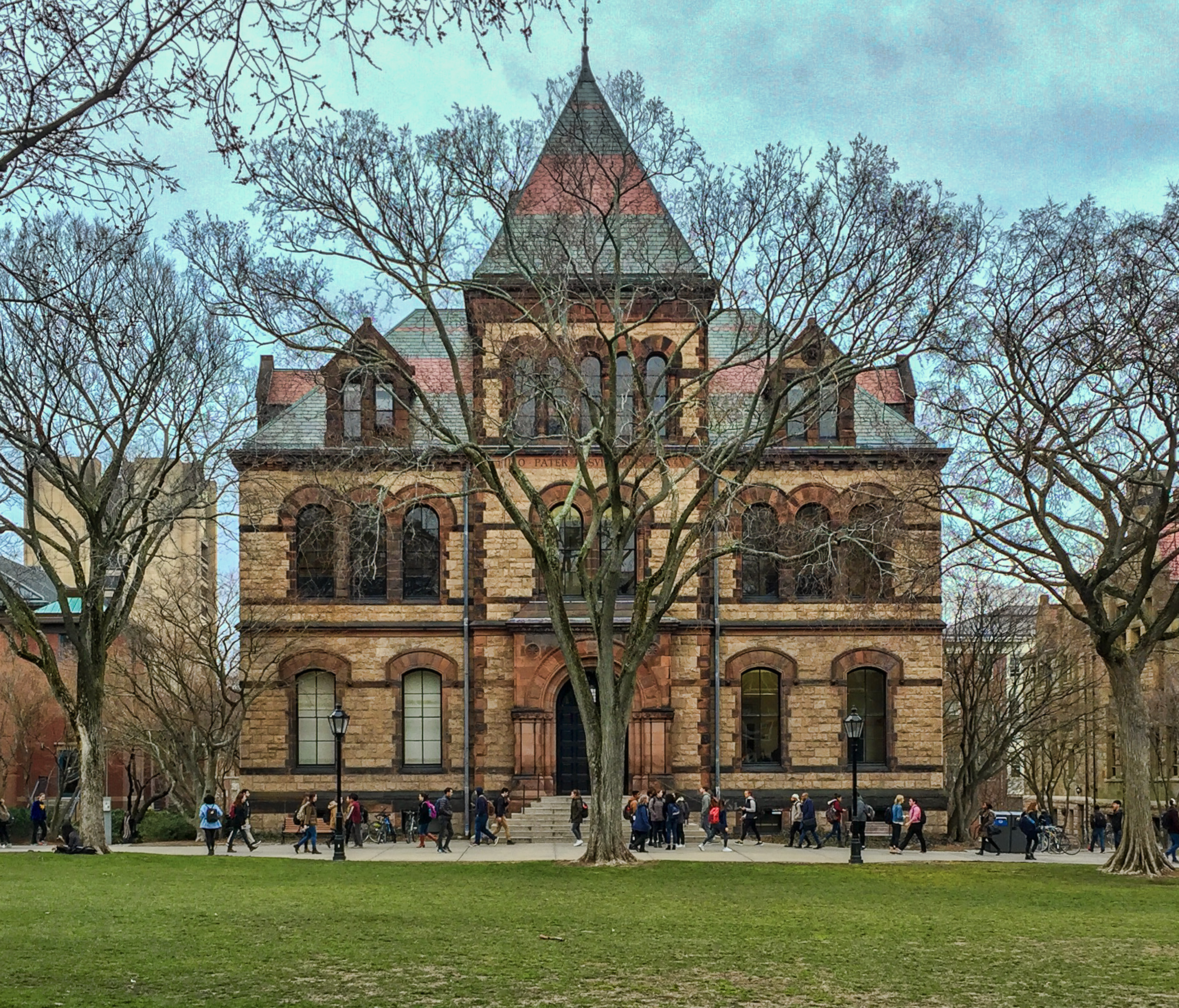 Sayles Hall, Brown University